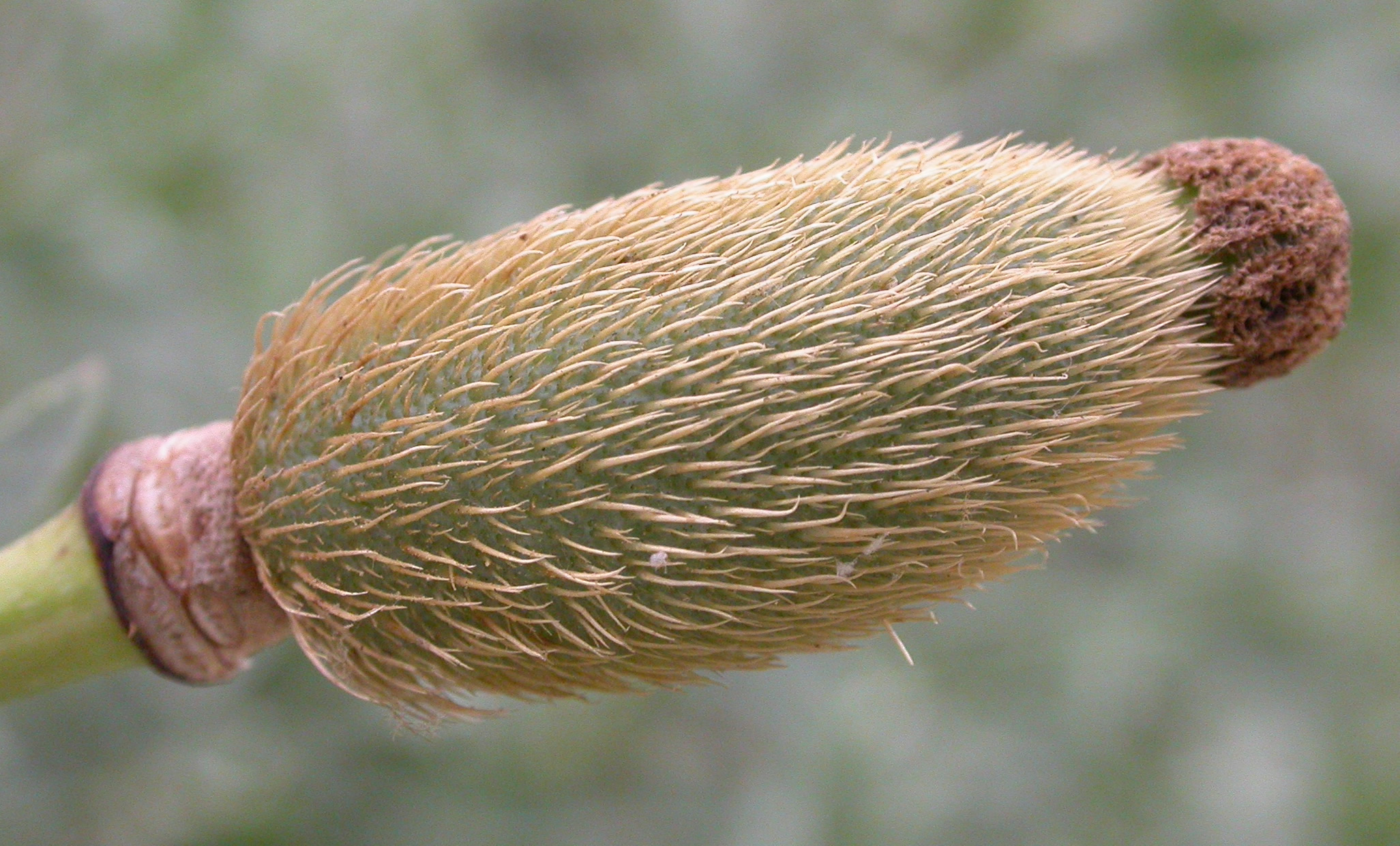 Photographed at BioTrek. Contributed and © by Curtis Clark. Licensed as noted.